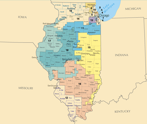 Illinois' congressional districts prior to 2012 redistricting